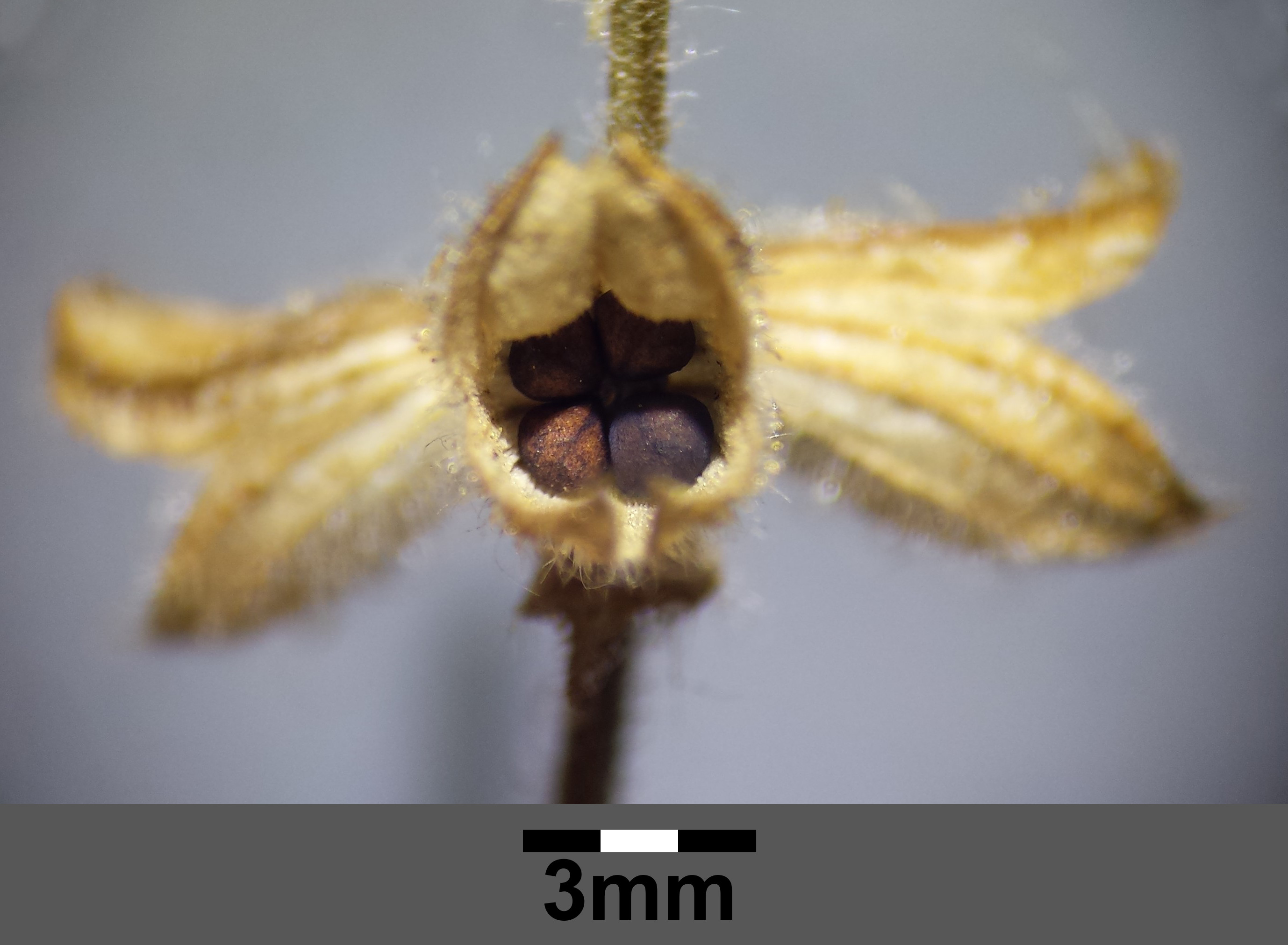 Infructescence (leg.: 2015-06-13) Taxonym: Salvia pratensis ss Fischer et al. EfÖLS 2008 ISBN 978-3-85474-187-9 Location: near Niederhollabrunn, district Korneuburg, Lower Austria - ca. 350 m a.s.l. Habitat: meadows